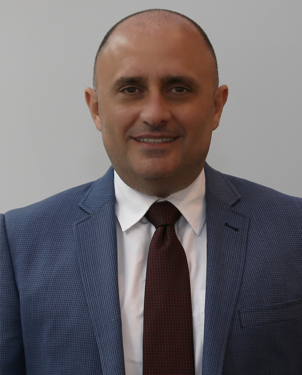 Lou Sticca